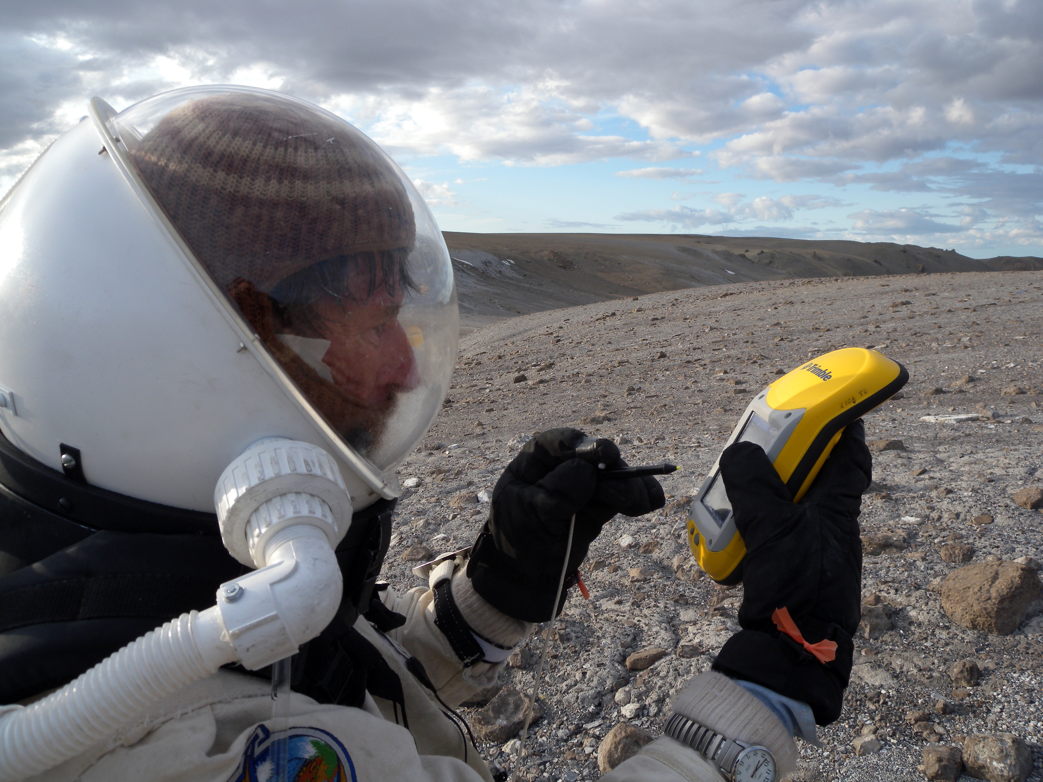 FMARS commander Kramer operates the Trimble GPS